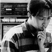 Mood Records